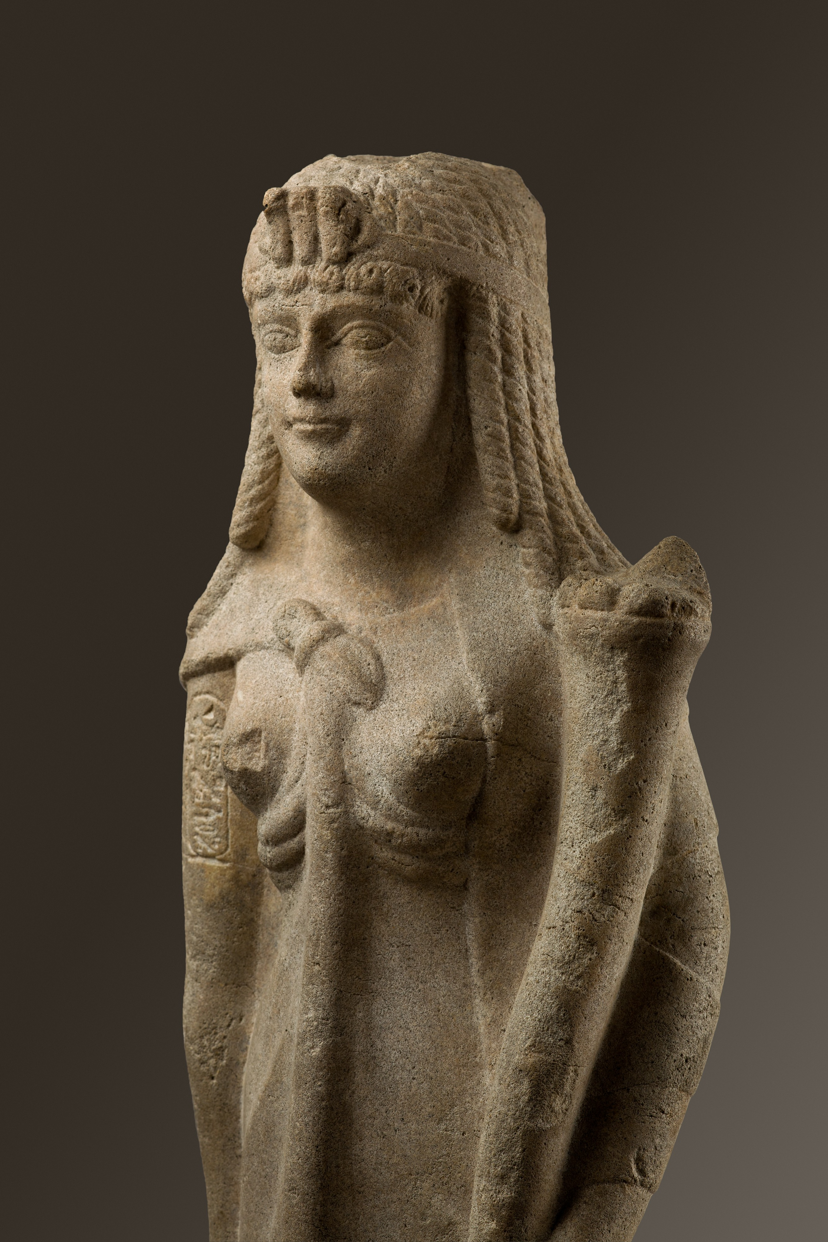 Statue, standing queen, Cleopatra cartouche